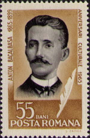 1965 Romanian Post, 55 bani, brown and olive, representing Anton Bacalbaşa; Series:Anniversaries; Design: S. Zainea Michel stamp catalogue (East-Europe part 4) number: 2397